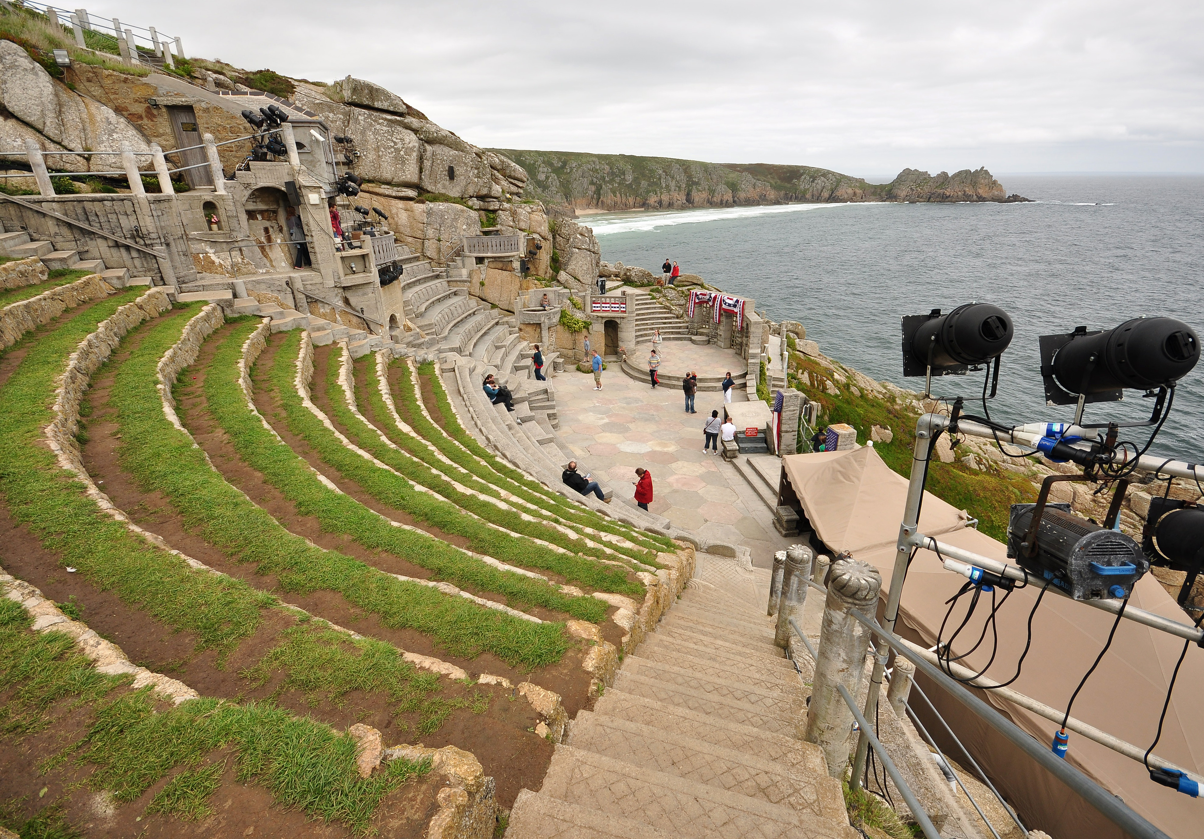 The Minack Theatre at Porthcurno, Cornwall.